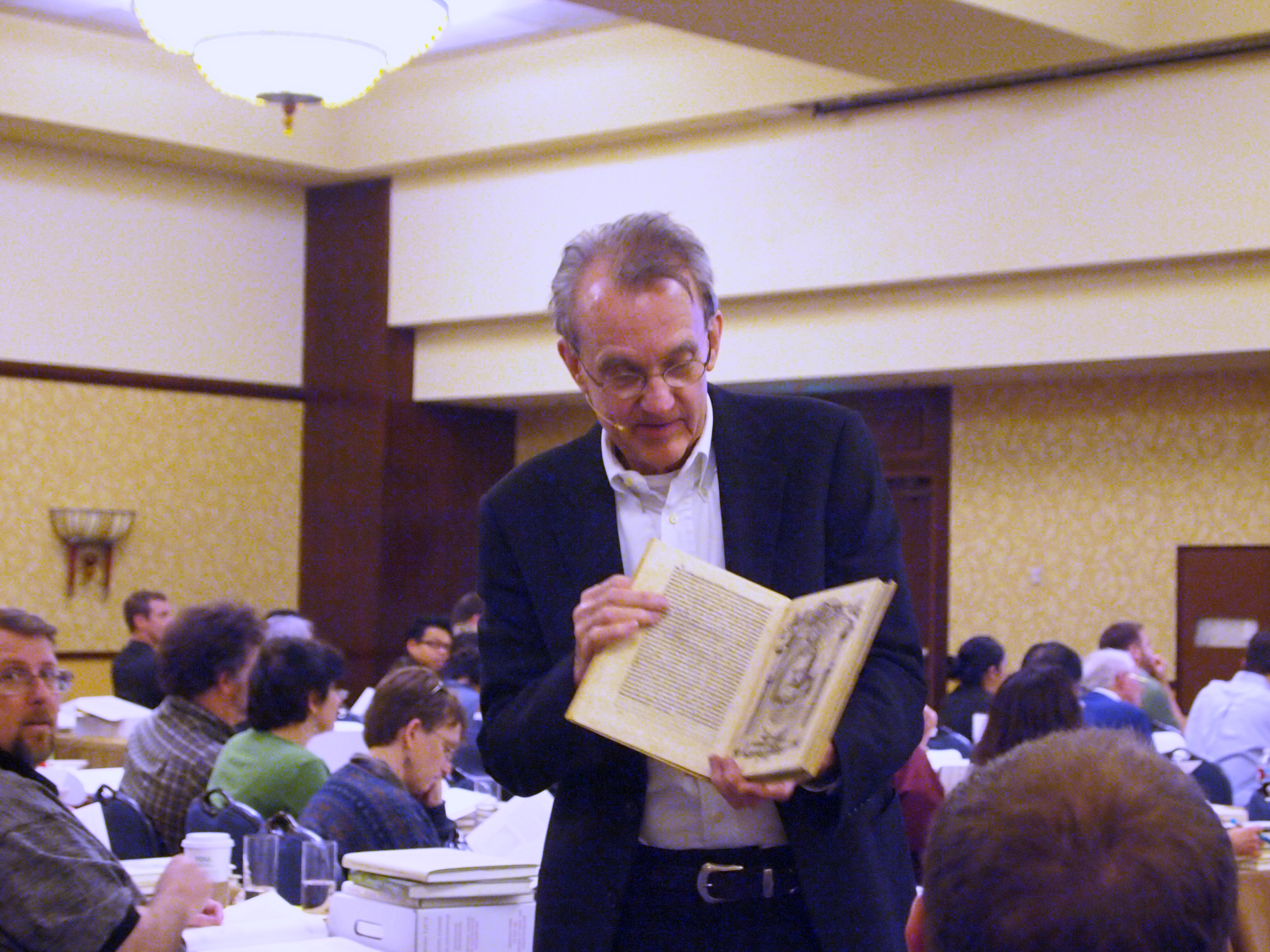 Edward Tufte giving a class and holding a scanned copy of a first edition book by Galileo.